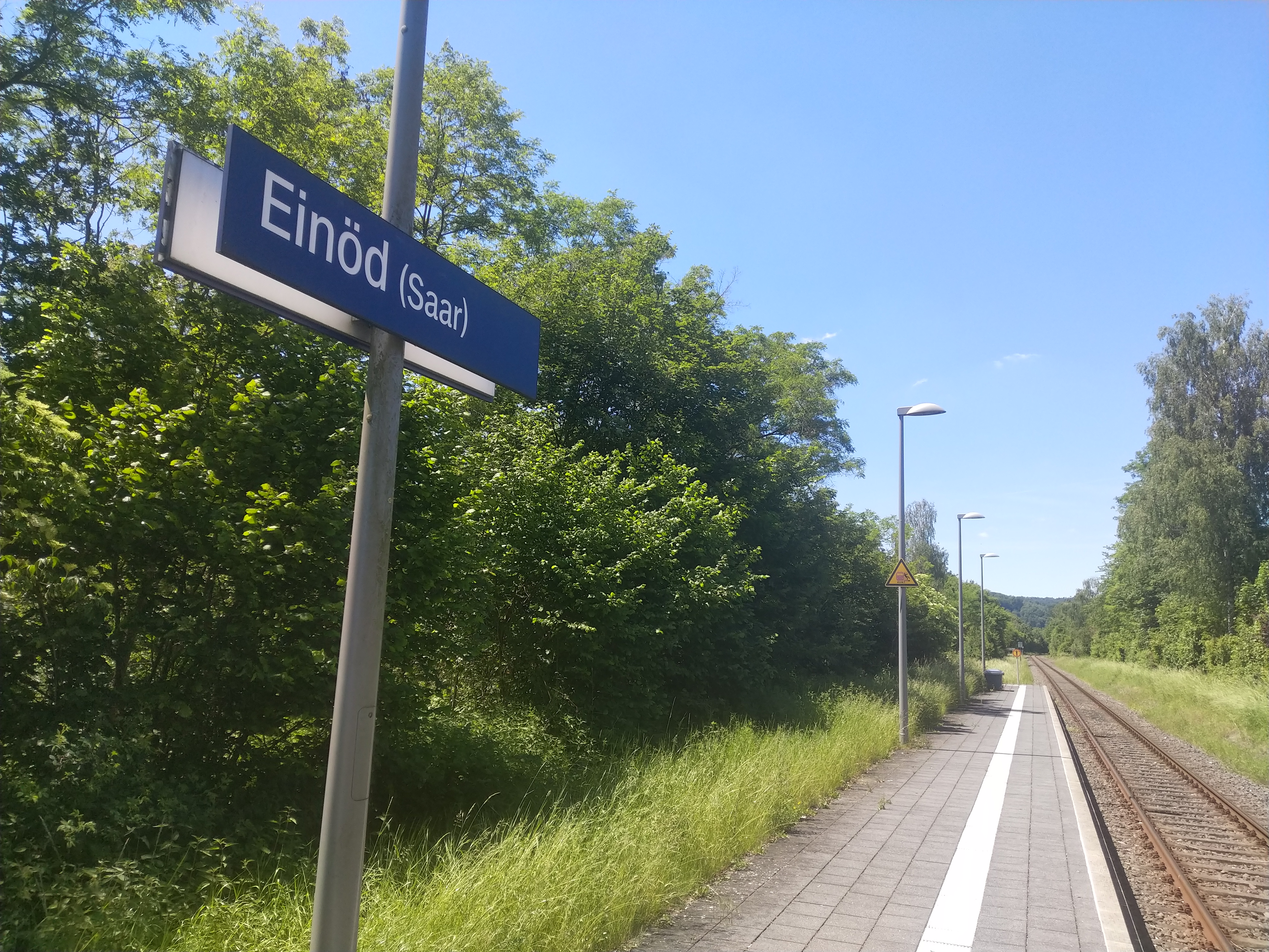 Train-station in Einöd